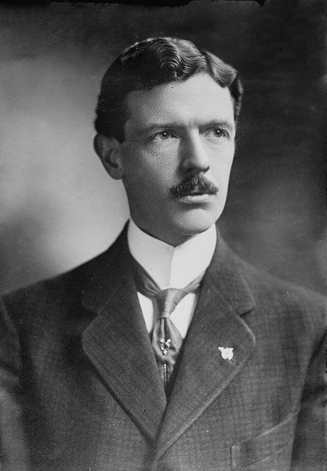 Charles H. Thomas of the Chicago Cubs in 1916